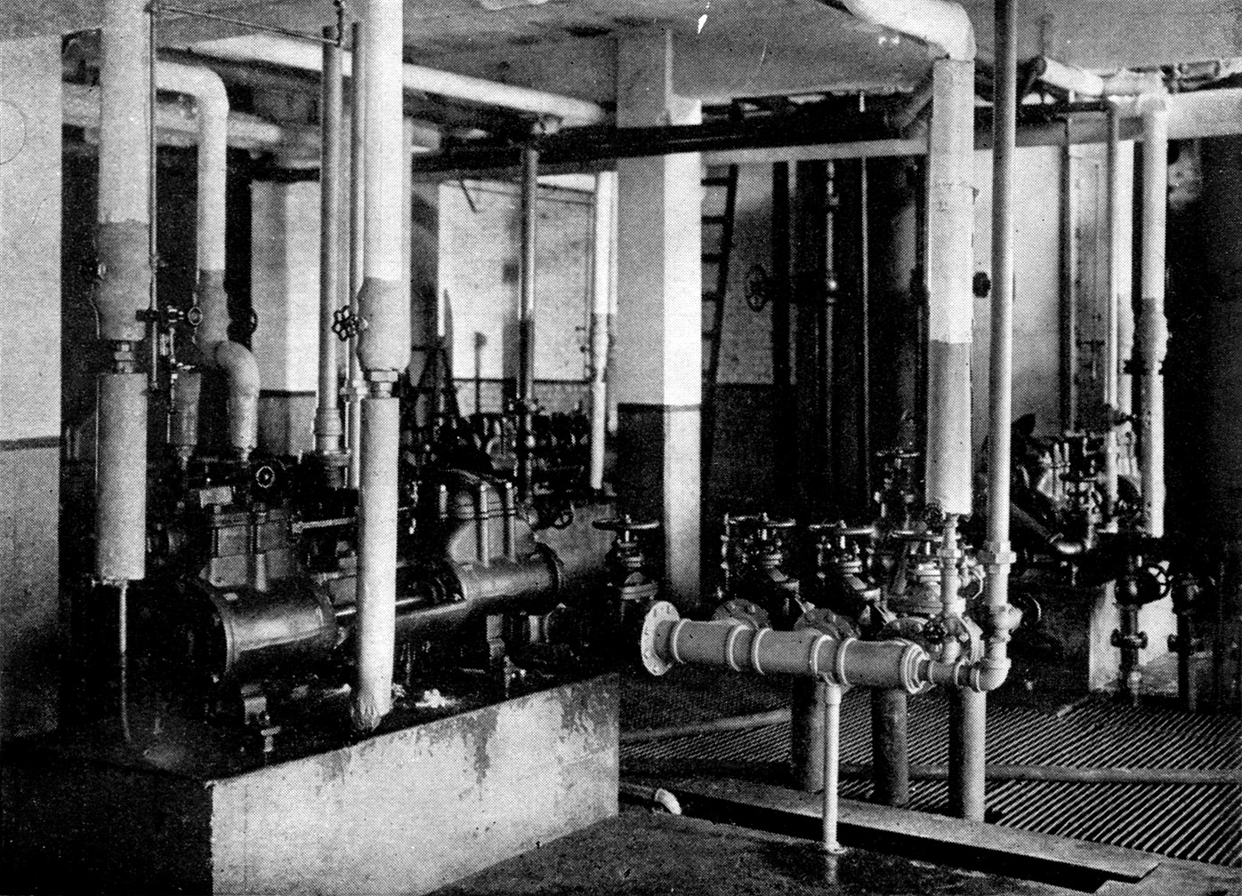 ASBESTOS-COVERED PIPES IN AN OIL-REFINING PLANT.